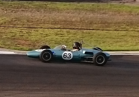 The Rennmax BN1 of Noel Bryen at the National Historic Race Meeting, Mallala Motor Sport Park, 22 April 2017.